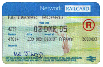 Current version of the Network Railcard, introduced in 2002 following the introduction of new minimum fare regulations. The red "R" indicates that it is a revised version of the previous Railcard. This example was issued at Didcot Parkway in December 2004. Scanned from my own collection.